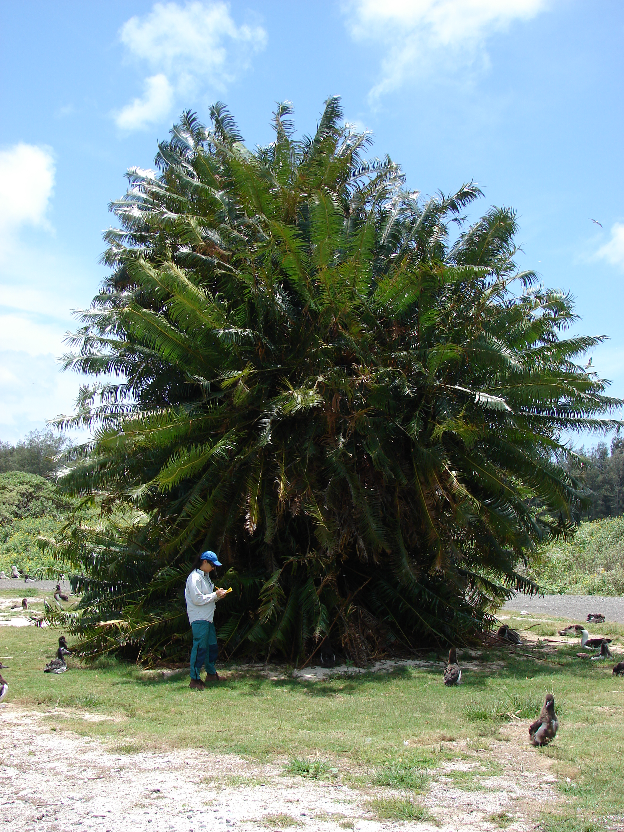 Cycas circinalis (tree in Laysan albatross colony). Location: Midway Atoll, Ave Maria Sand Island